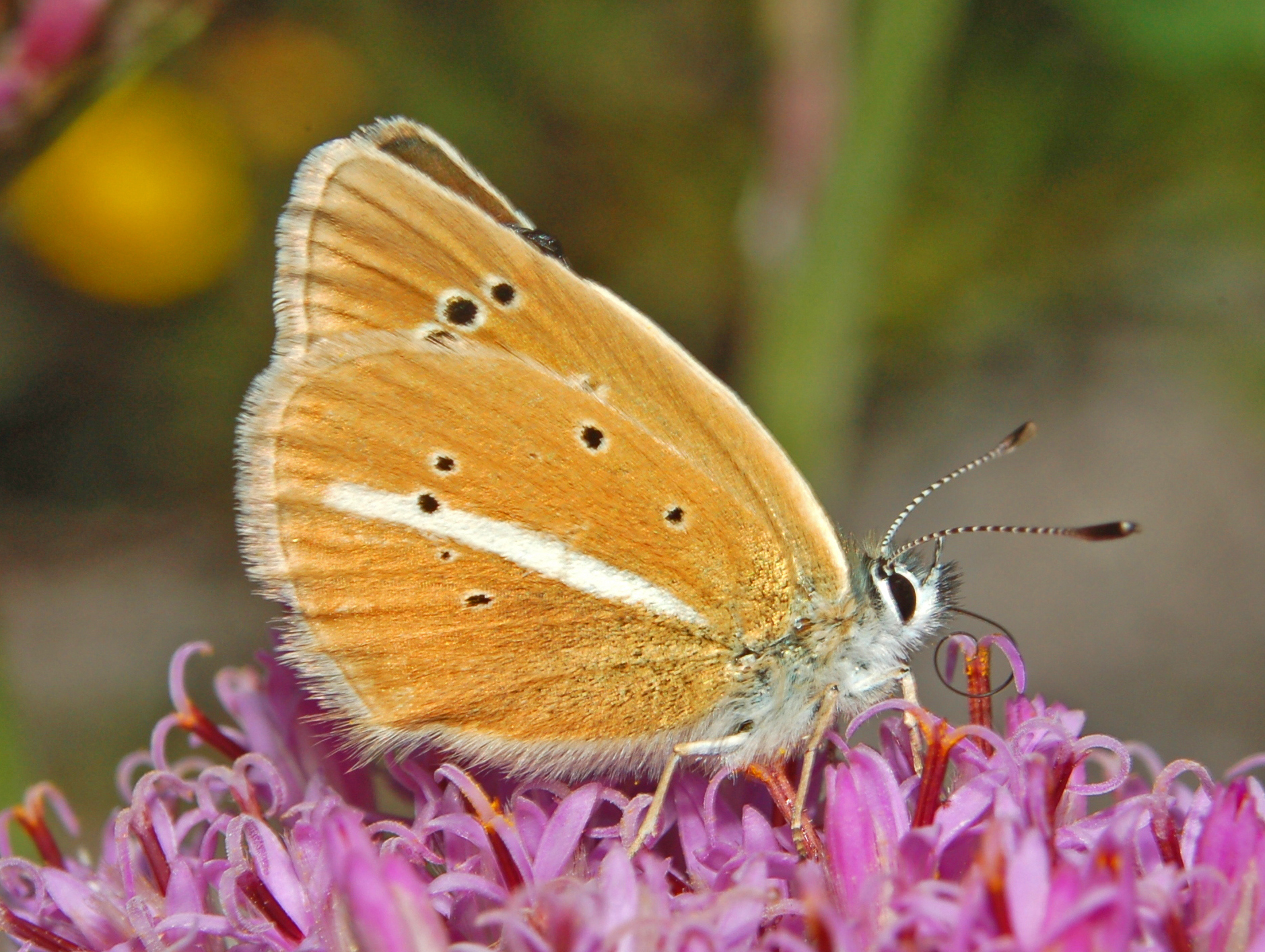 Polyommatus damon. Female, underface. Valle Argentera, Torino, Italy